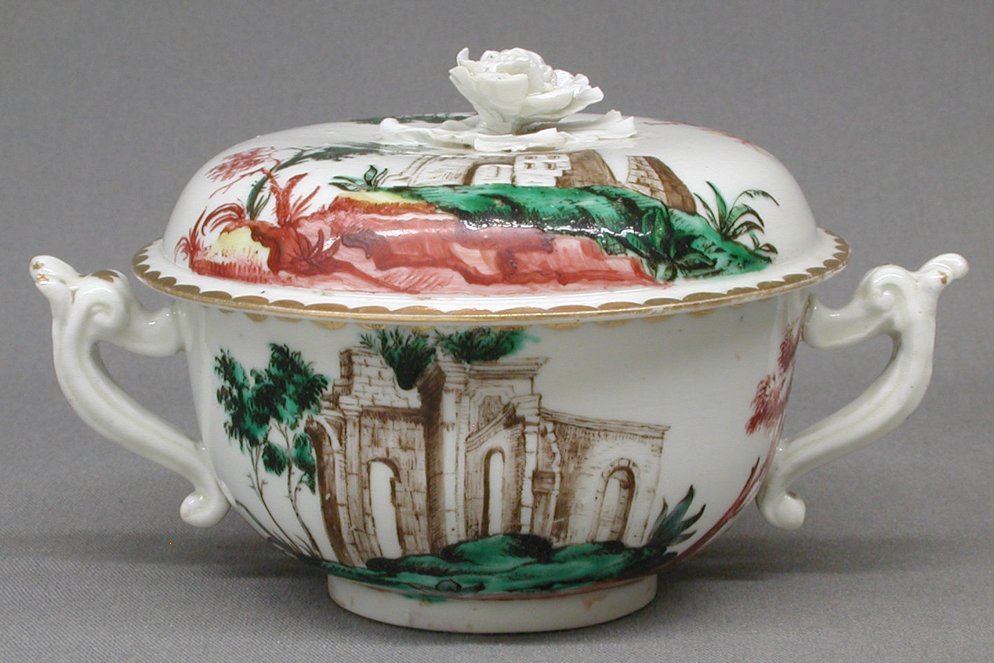 Italian, Nove; Bowl with cover; Ceramics-Porcelain